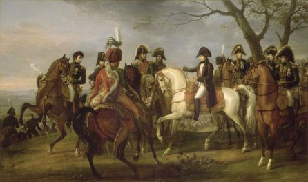 Napoléon Ier donnant l’ordre avant la bataille d’Austerlitz